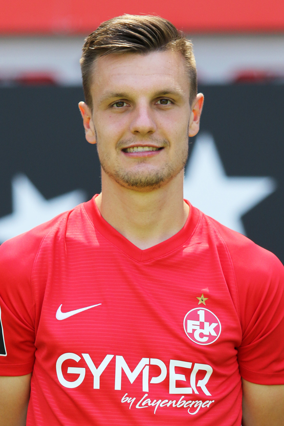 Gino Fechner (Nr. 8)